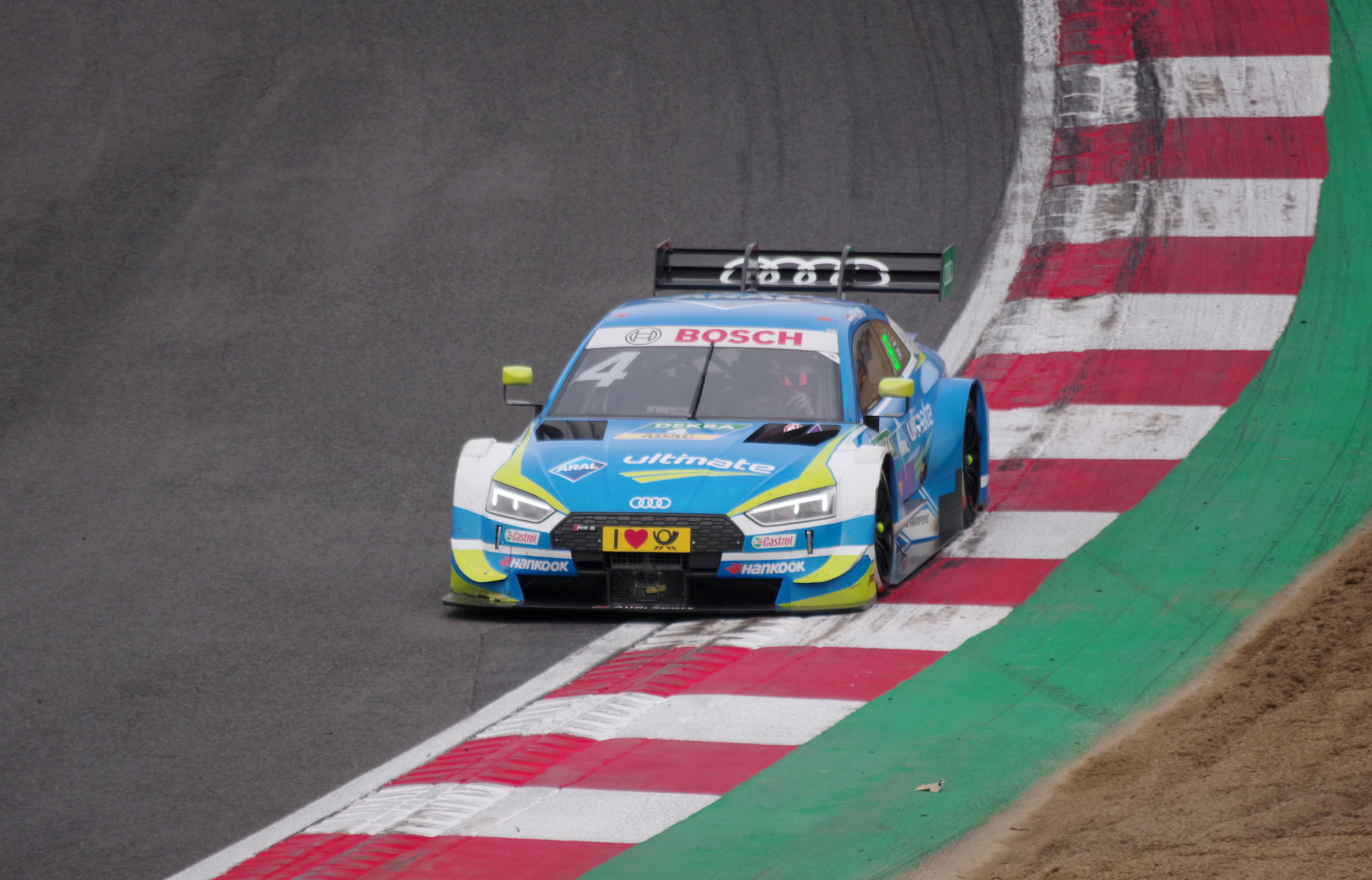 2018 Deutsche Tourenwagen Masters, Brands Hatch.